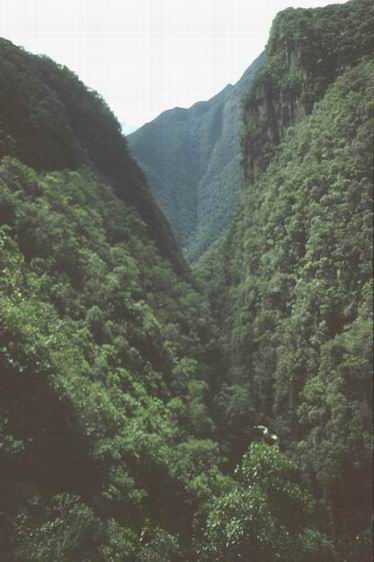 a Canyon in Rio de Janeiro (state) created by he:משתמש:בן הטבע